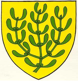 Coat of arms of Mistelbach, Lower Austria